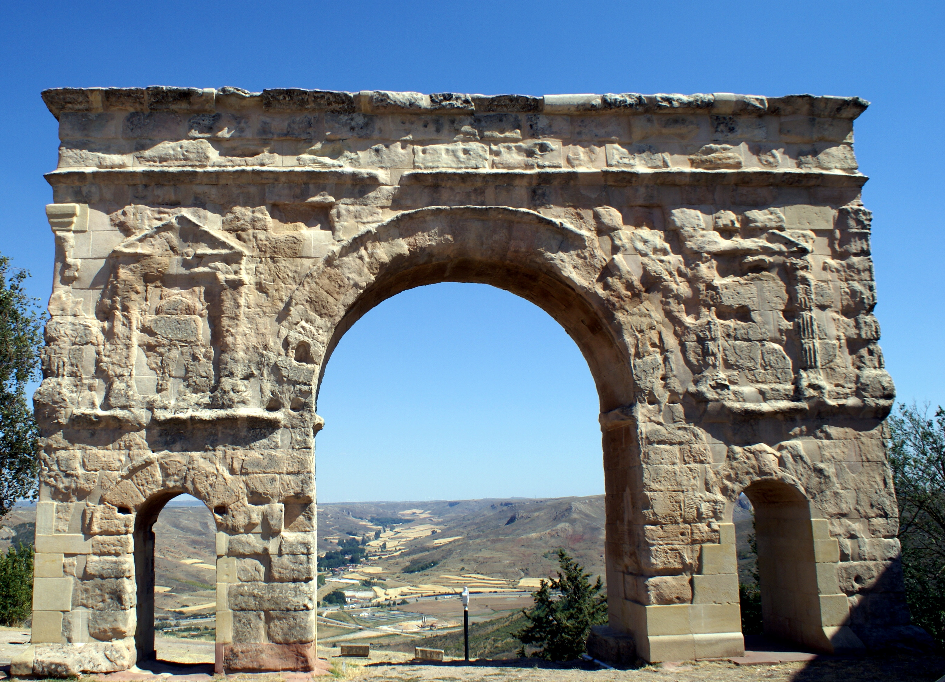 Northern façade of Medinaceli's Roman arch, Soria, Spain.